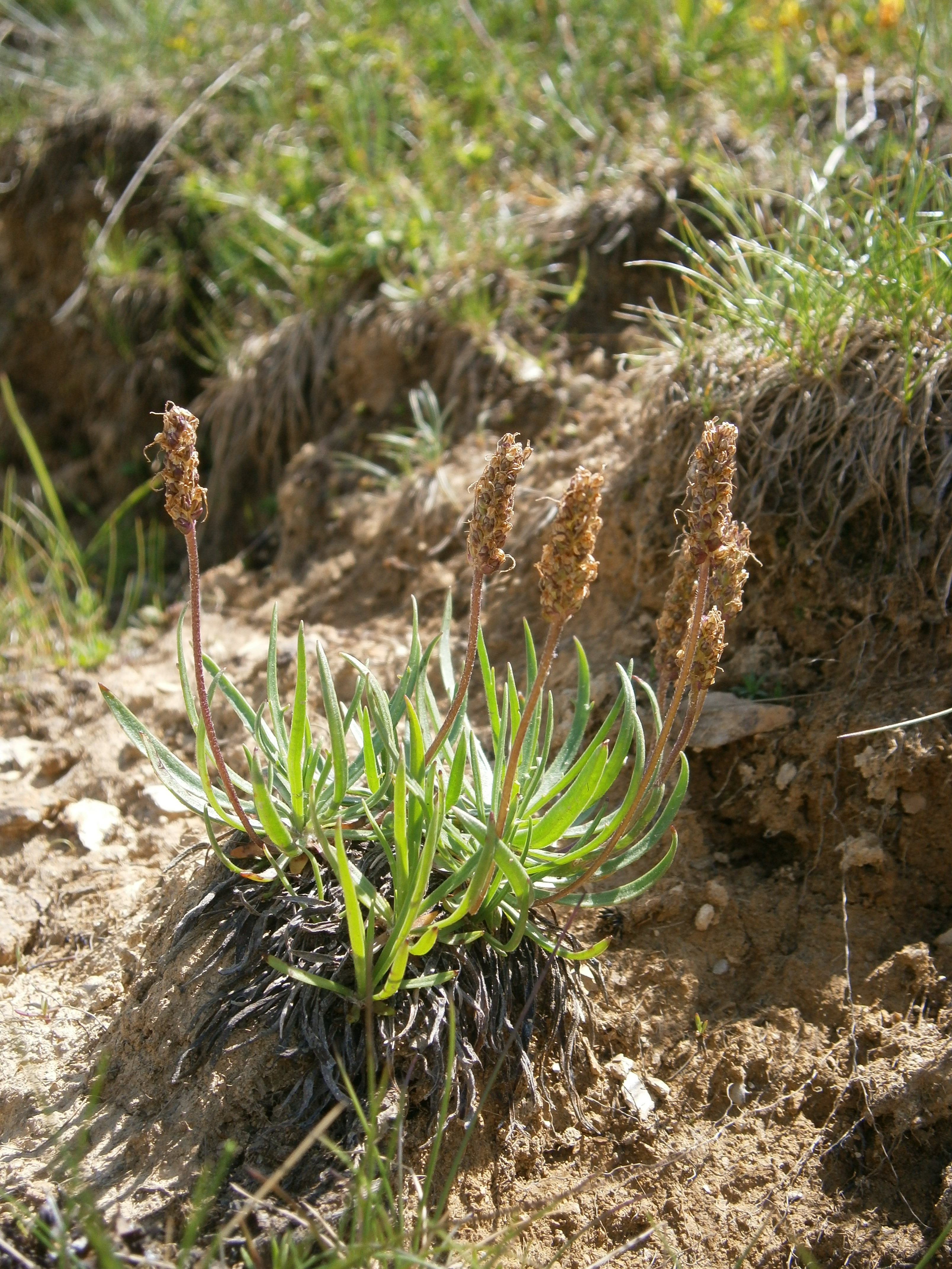 Plantago alpina